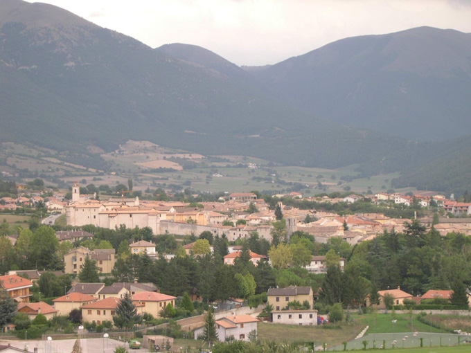 View of Norcia (Perugia - Italy)